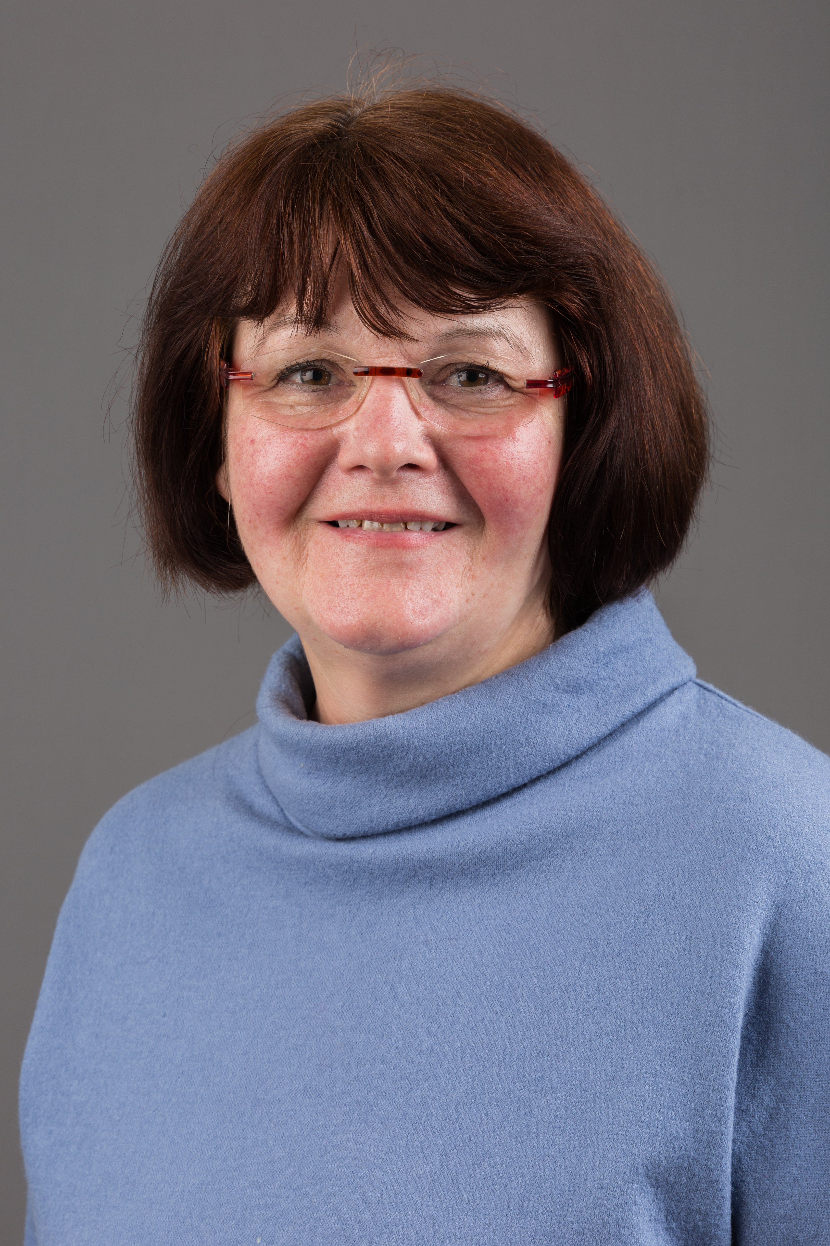 Sabine Waschke, member of the Landtag of Hesse